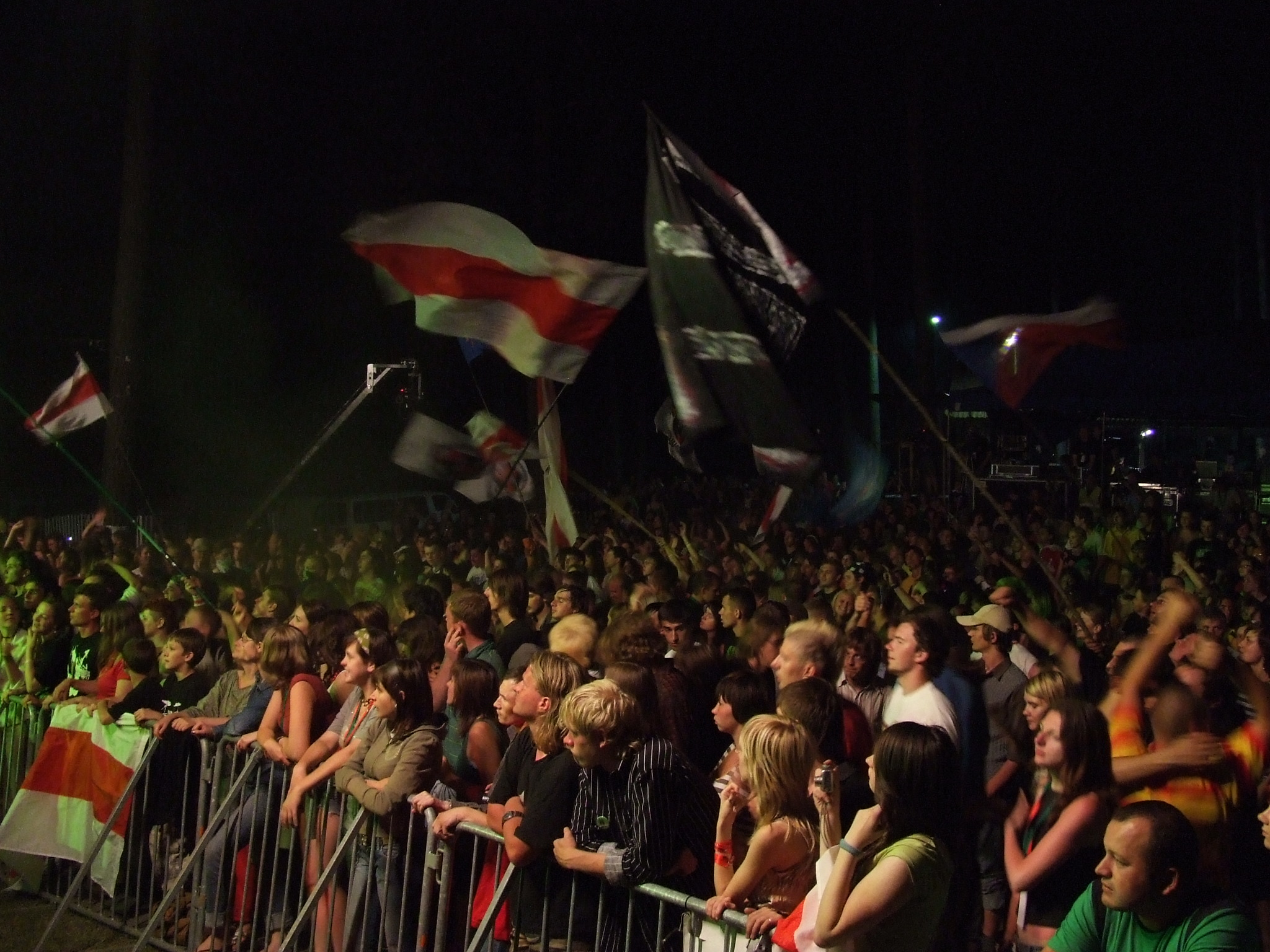 Audience at Basowiszcza 2007.